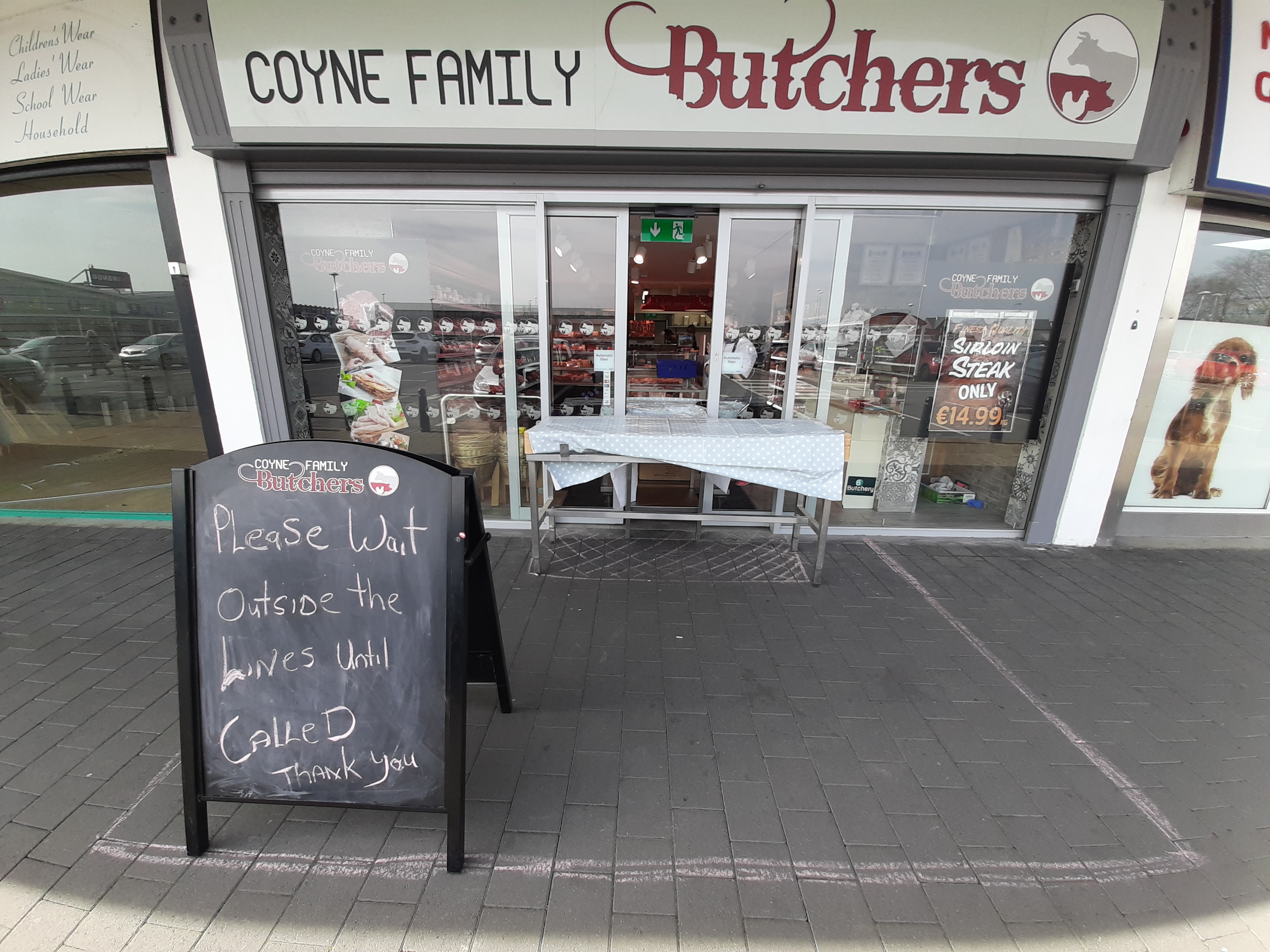 Irish butcher implementing ad-hoc social distancing measures duing the 2020 pandemic